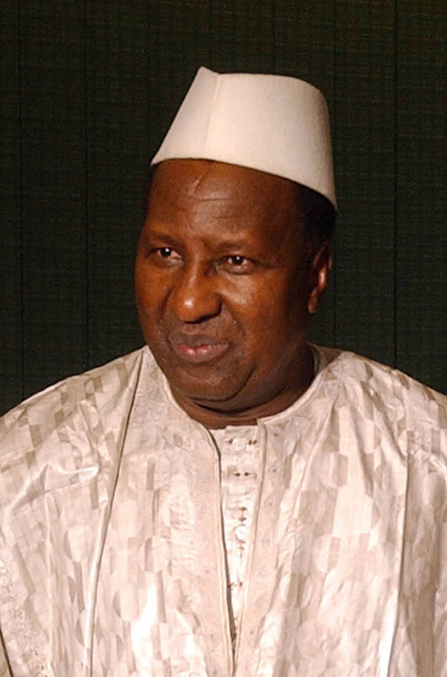 Alpha Oumar Konaré in Brasília.